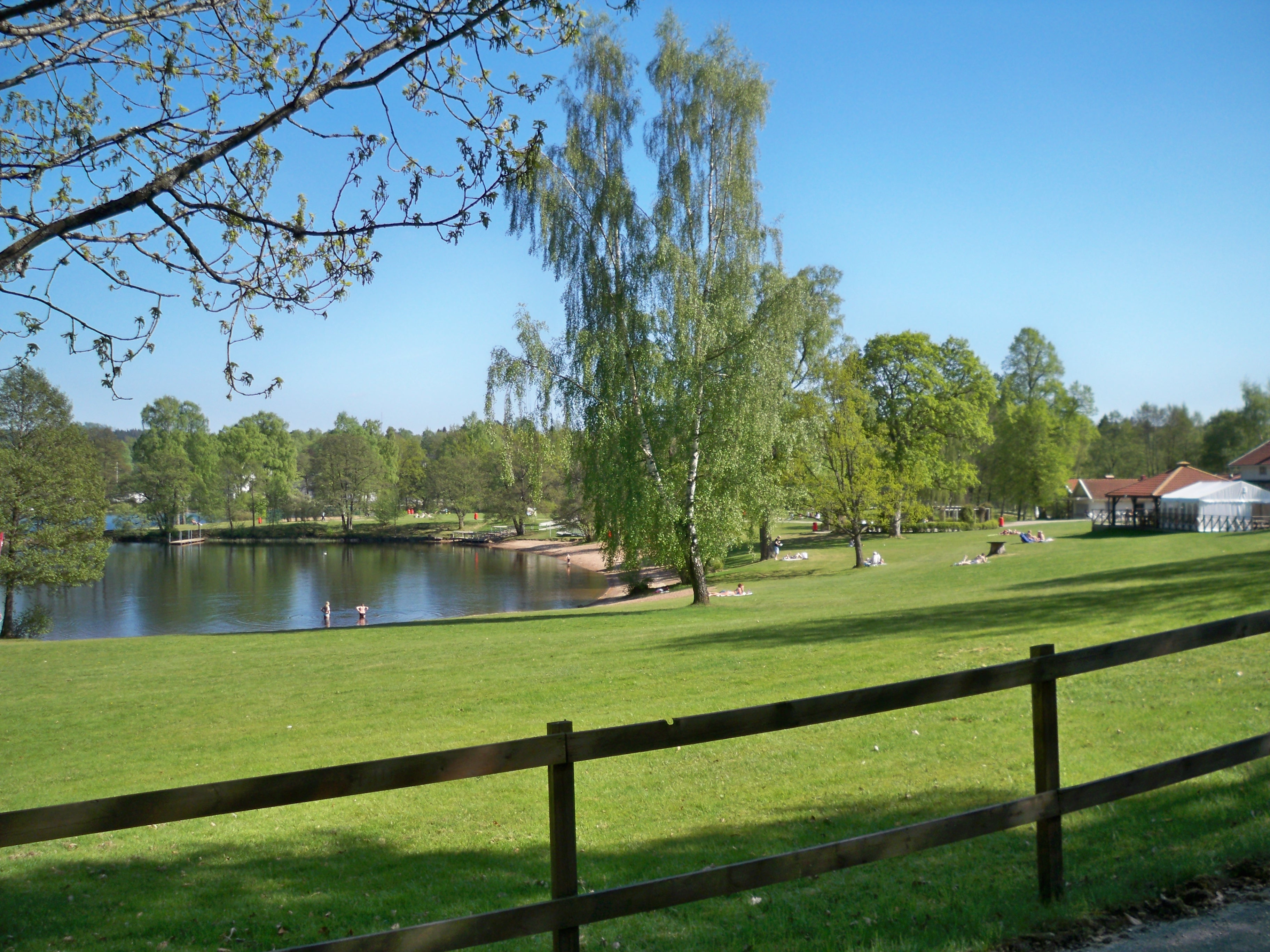 An early May picture of a lake cove in the city of Borås, Sweden, where there is a public bath establishment during the summer season.